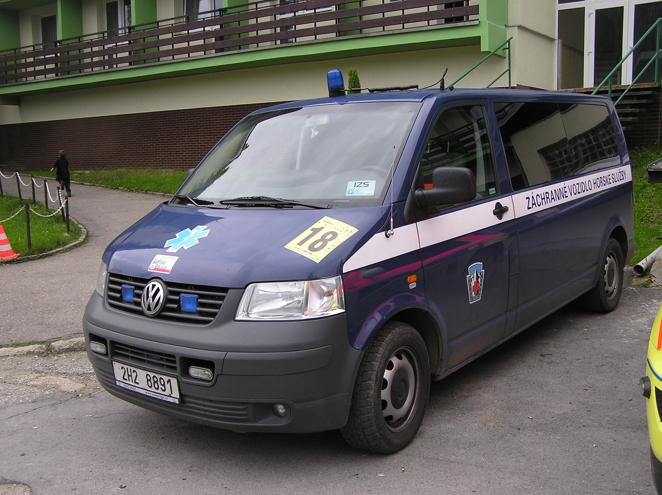 Mountain Rescue Ambulance vehicle in the Czech Republic